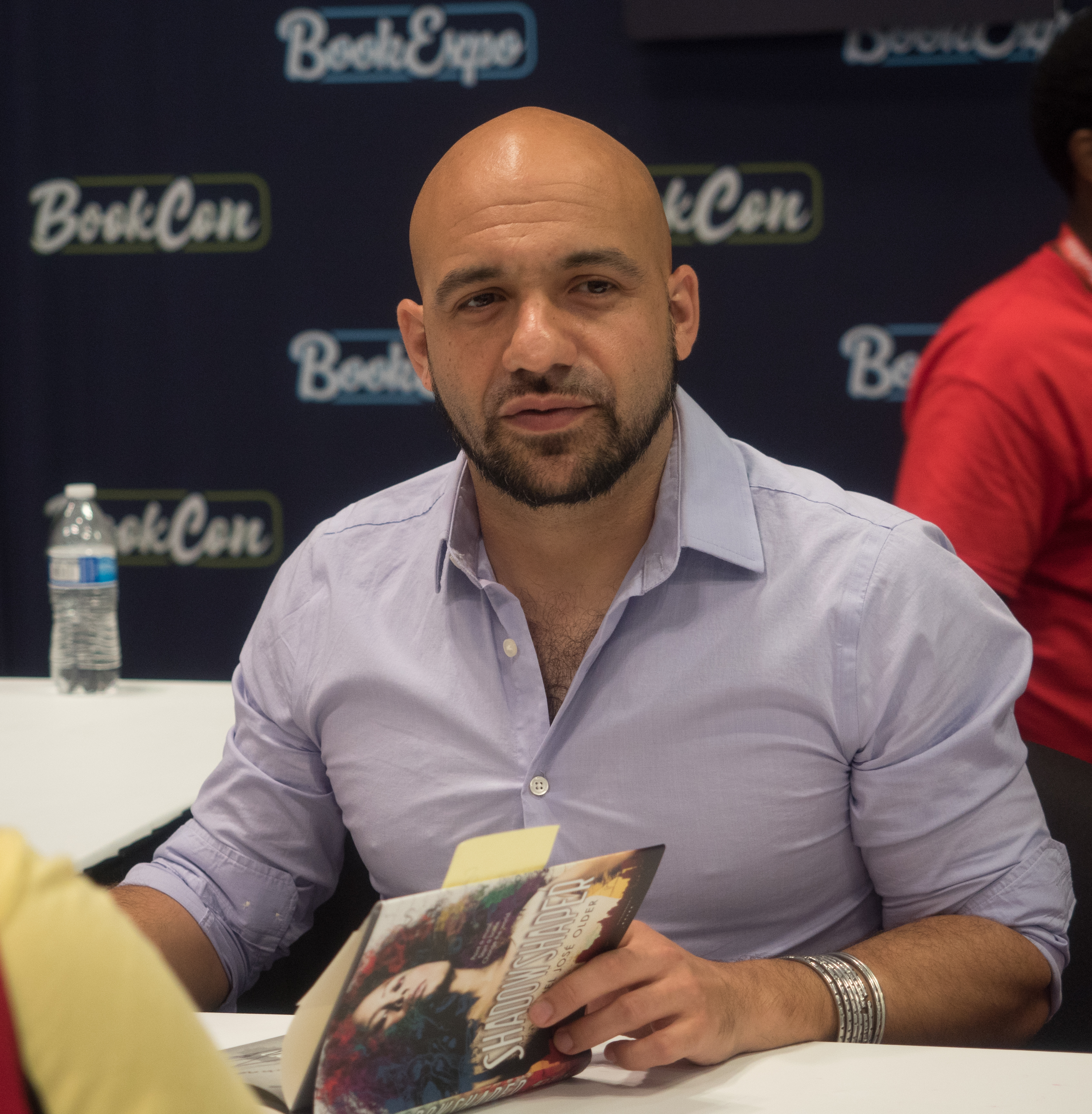 Daniel Jose Older at BookCon